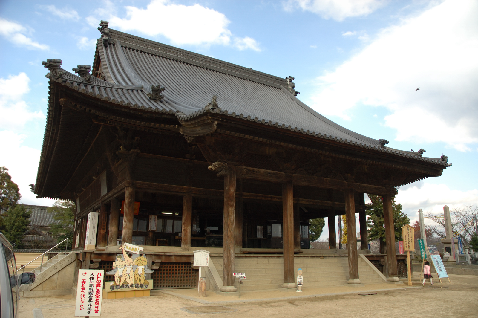 the main temple, built in 1863.